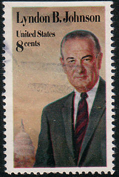 US stamp honoring Lyndon B. Johnson